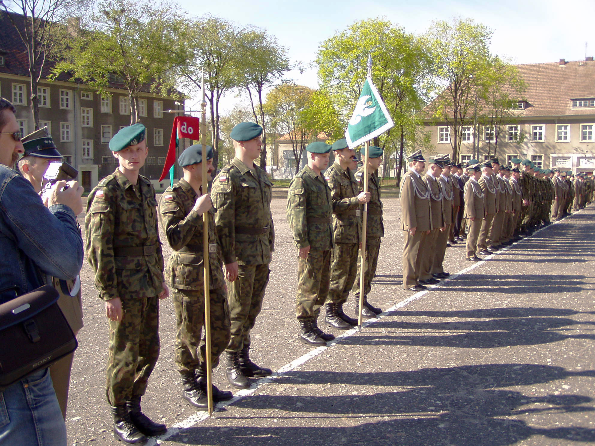 25.04.2004 - rocket battalion in order. Awarding of the banner "Outstanding unit of the Polish Army".